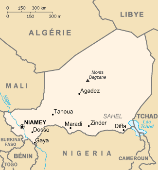 French map of Niger